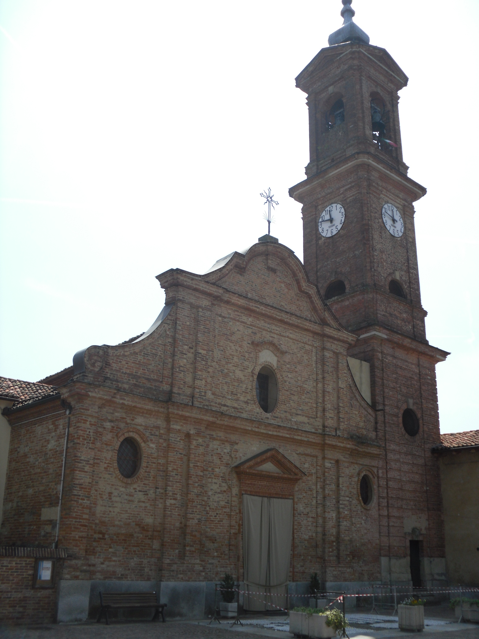 passerano church